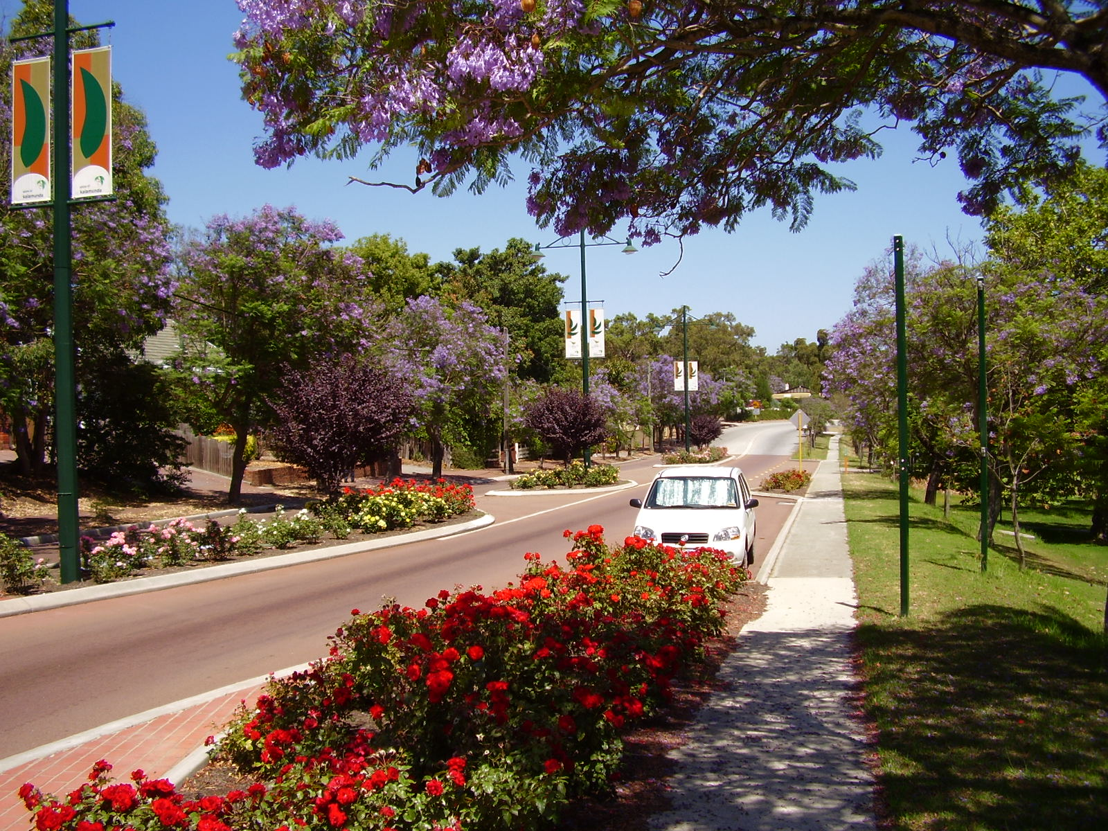 View down the top stretch of Kalamunda Road, in Kalamunda, in mid-summer. This photograph was copied from the English Wikipedia. It was taken by Mark Ryan.